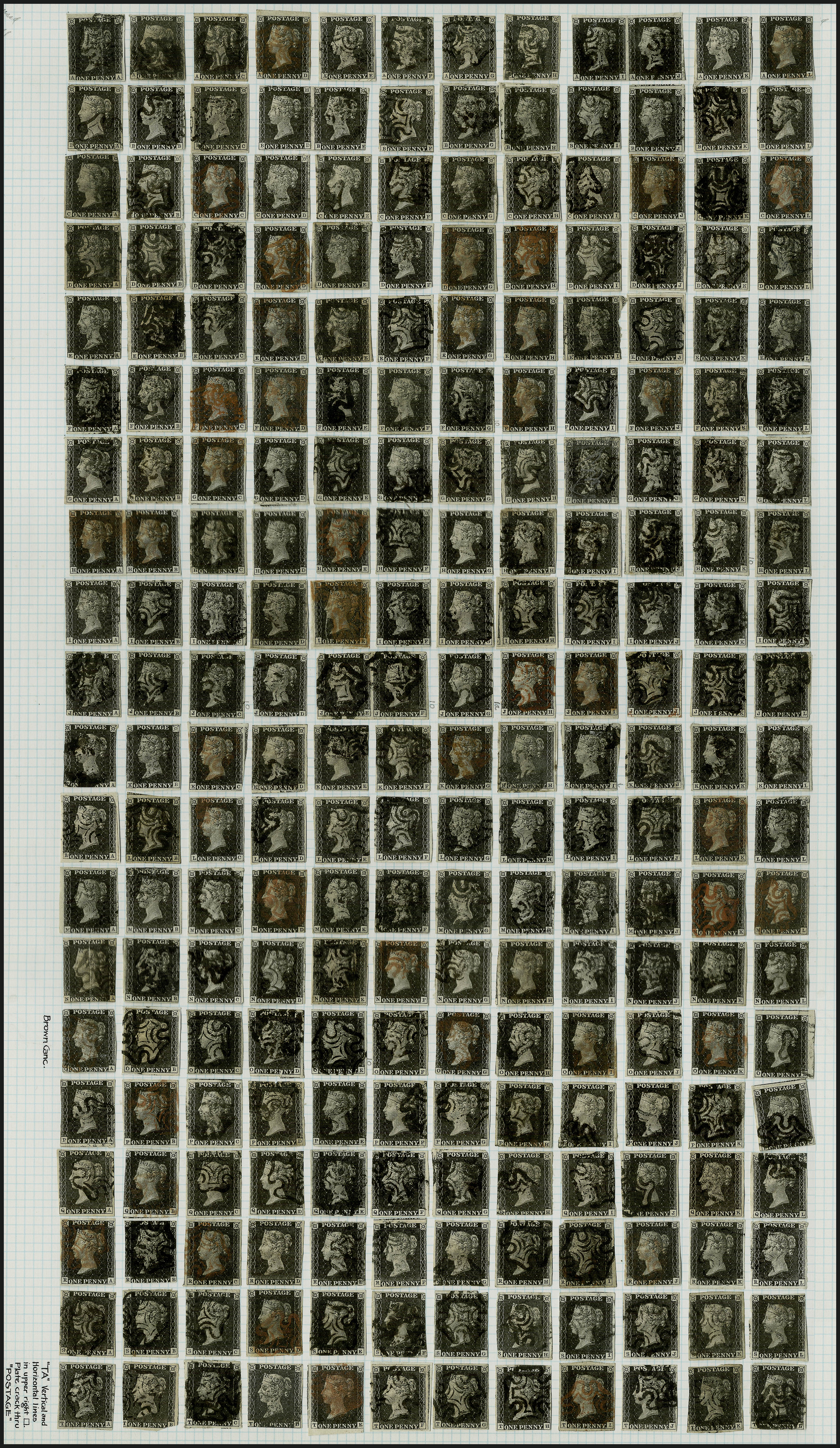 Composite plate reconstruction of the 240 positions of the Penny Black, from "AA" at top left to "TL" at bottom right. Most stamps are cancelled with red or black Maltese Cross cancels. Sold as lot 1017 in Robert Siegal's 2006 Rarities of the World auction for $18,000.